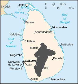 Sri Lanka Blue Magpie distribution map, modified from CIA country map (File:Sri Lanka-CIA WFB Map (2004).png or similar)